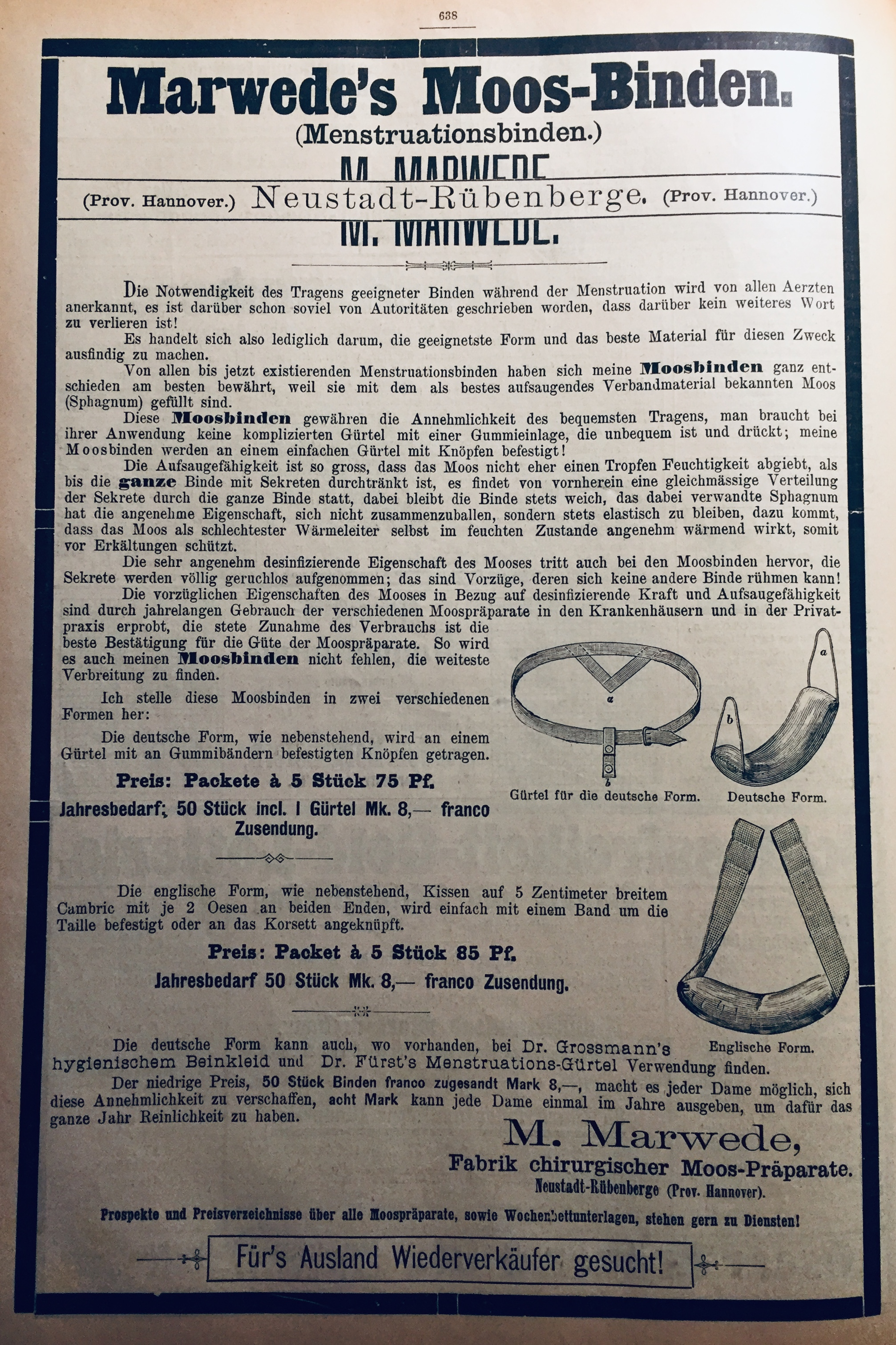 Advertising for sanitary-pads made of moss dated 1890, published in a Magazine for housewifes.